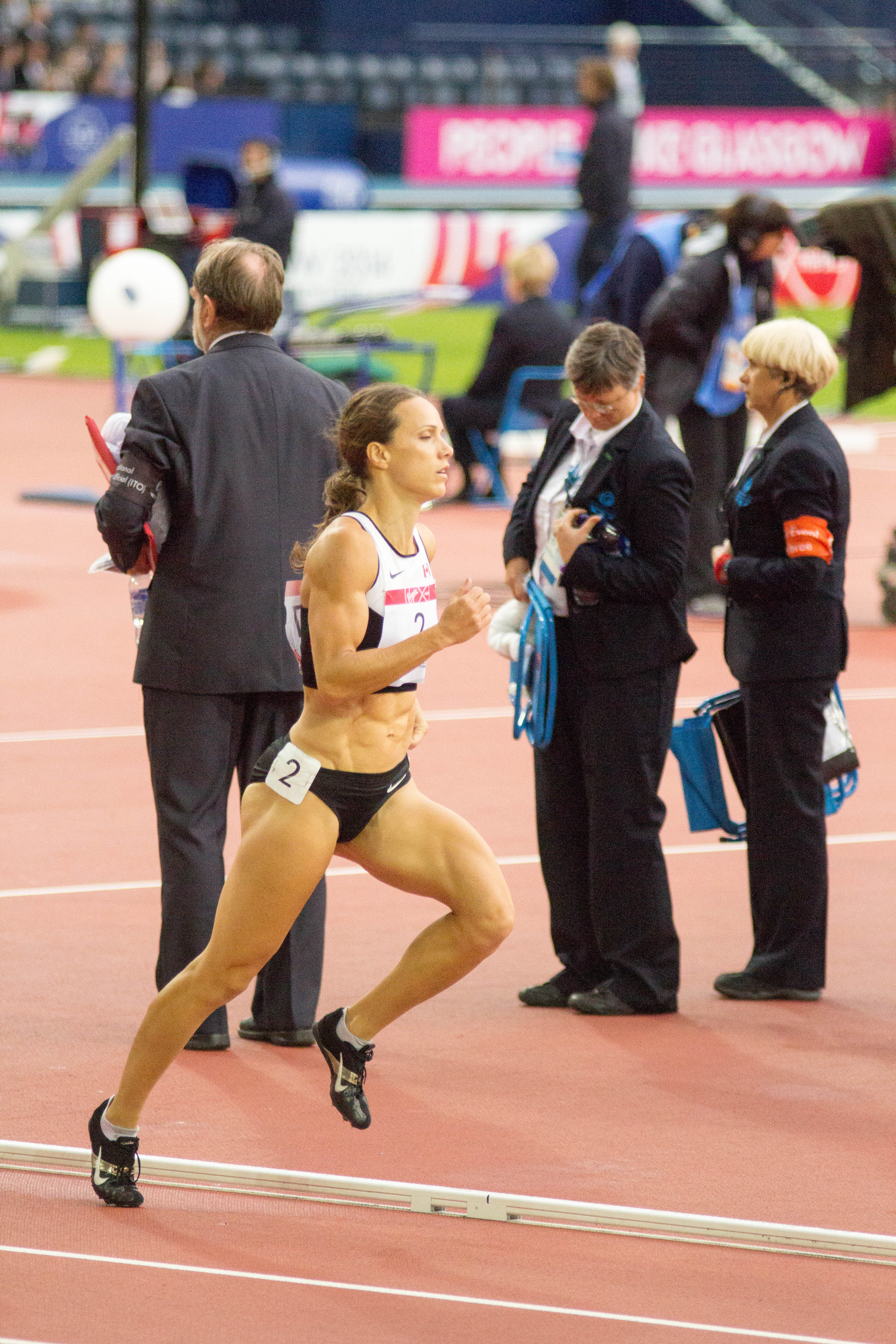 Jessica Zelinka competing at the 2014 Commonwealth Games